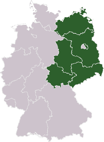 German reunification – The five new Länder and East Berlin who became part of the reunited Germany on 3. October 1990.Note: This map shows the Länder in east Germany in the shape of 1990. See Image:Germany Laender 1947 1990 DDR.png for differces to 1947.